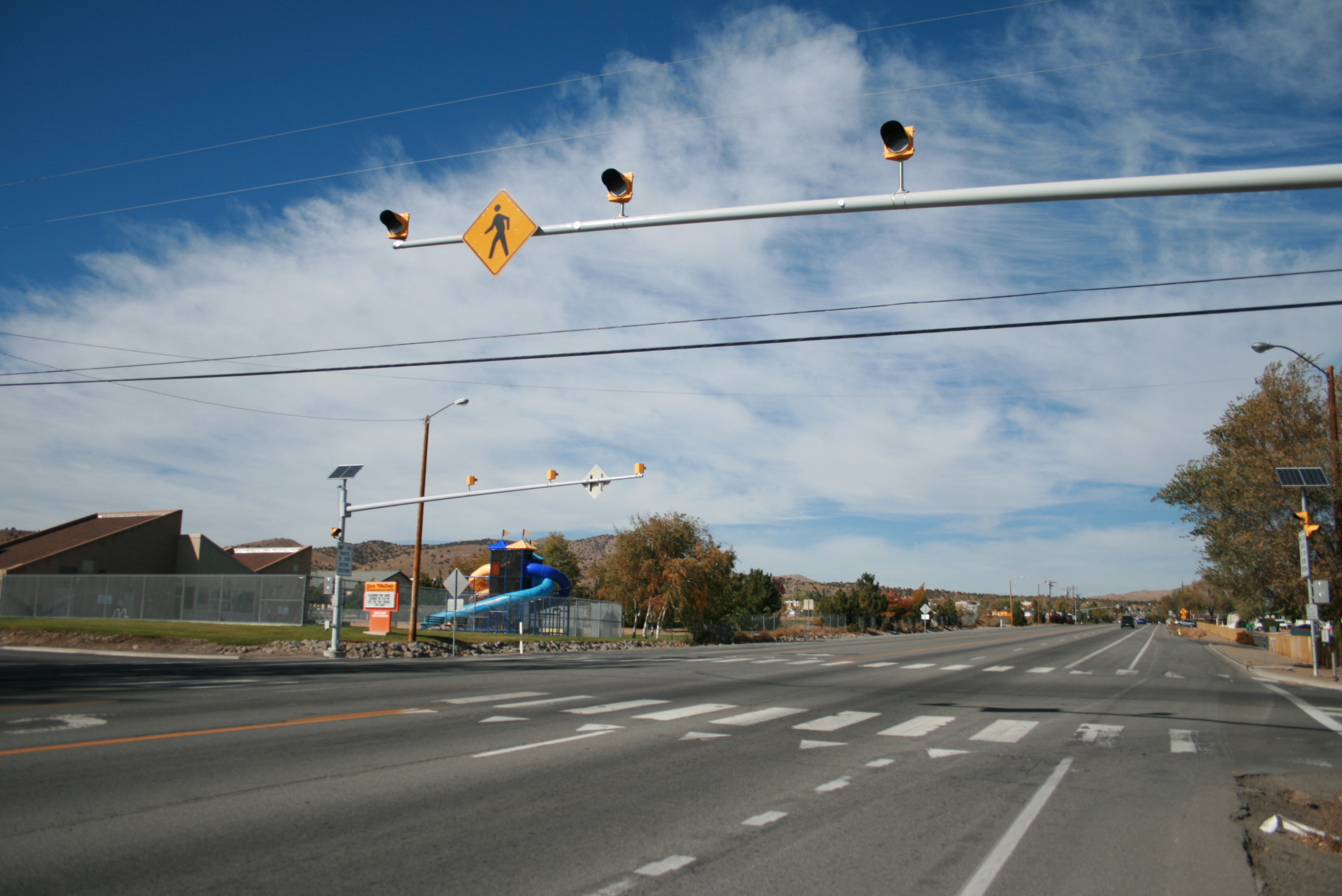 Looking northbound on Nevada State Route 443 (Sun Valley Blvd) at 6th Ave in Sun Valley, Nevada; at left is the Sun Valley Pool.